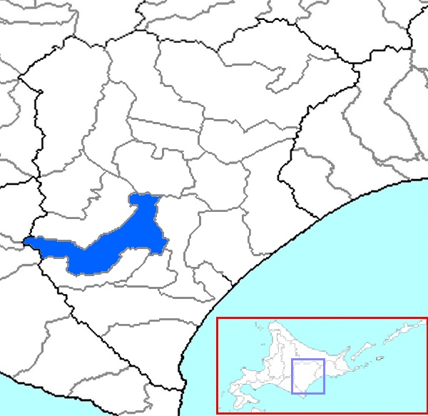 The location of Obihiro in Tokachi Subprefecture, Hokkaido Prefecture, Japan.